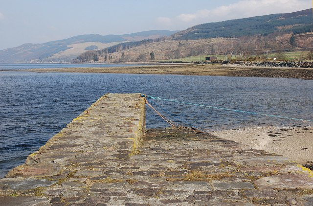 Quay at Otter Ferry, Argyll, once the site of a ferry across Loch Fyne